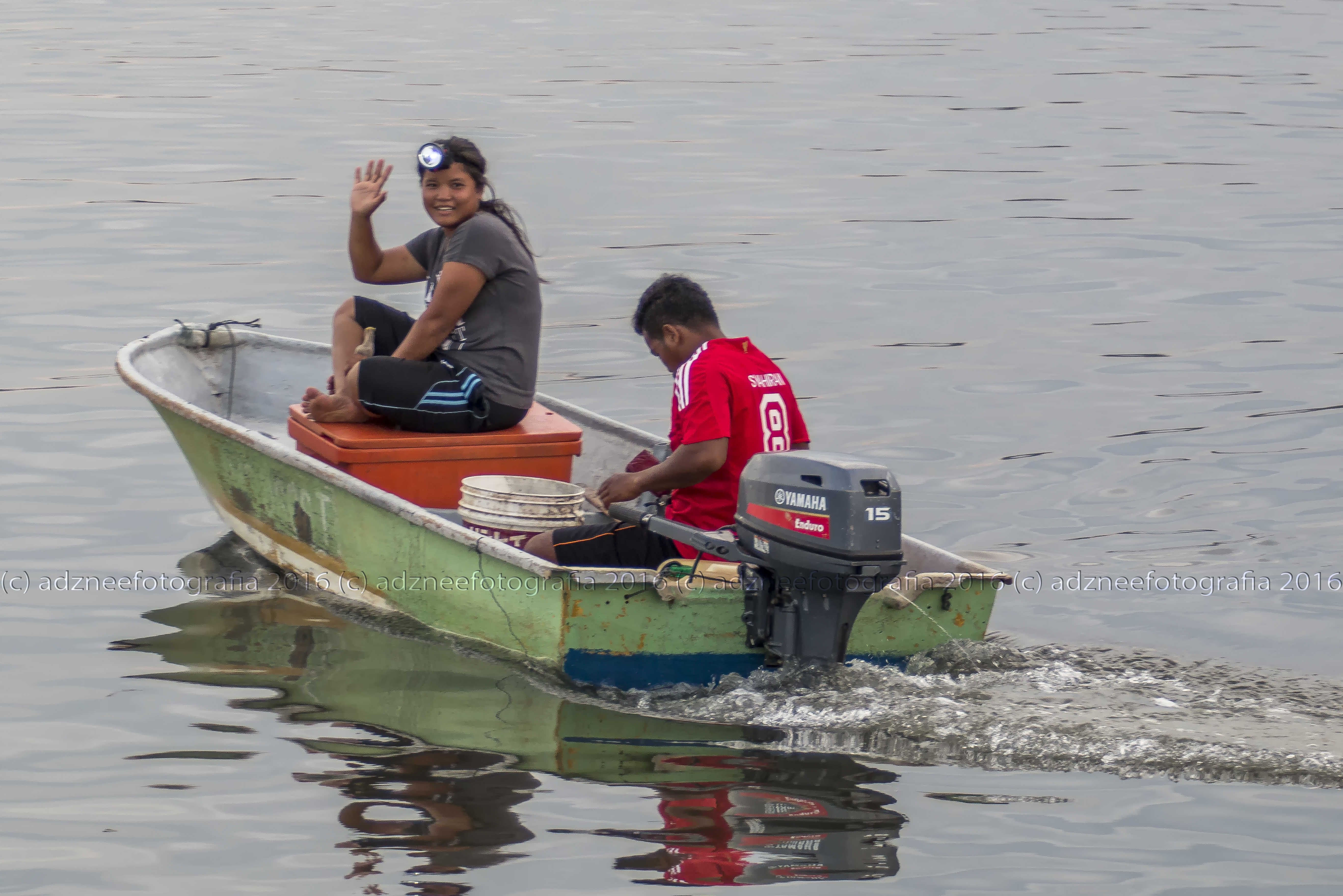 The Orang Seletar are one of the nineteen Orang Asli people groups living in Peninsular Malaysia. The Malaysian government classifies them under the Aboriginal Malay (officially called Proto-Malay) subgroup. Nearly half of the Orang Seletar ethnic group of 1,700, also live in northern Singapore. They are a maritime people, the descendants of the Orang Laut or sea people who constituted the original navy of the Malaccan Sultanate and played a pivotal role in the region's history. Originally from the Spice Islands in Indonesia, five hundred years ago they roamed the Straits of Malacca in bands, raiding, burning, and pillaging. They were the old pirates of South East Asia. The Orang Seletar have settled down in the states of Johor and Selangor. They no longer live in boats but in huts built on water. In some places, they live in houses built on land.